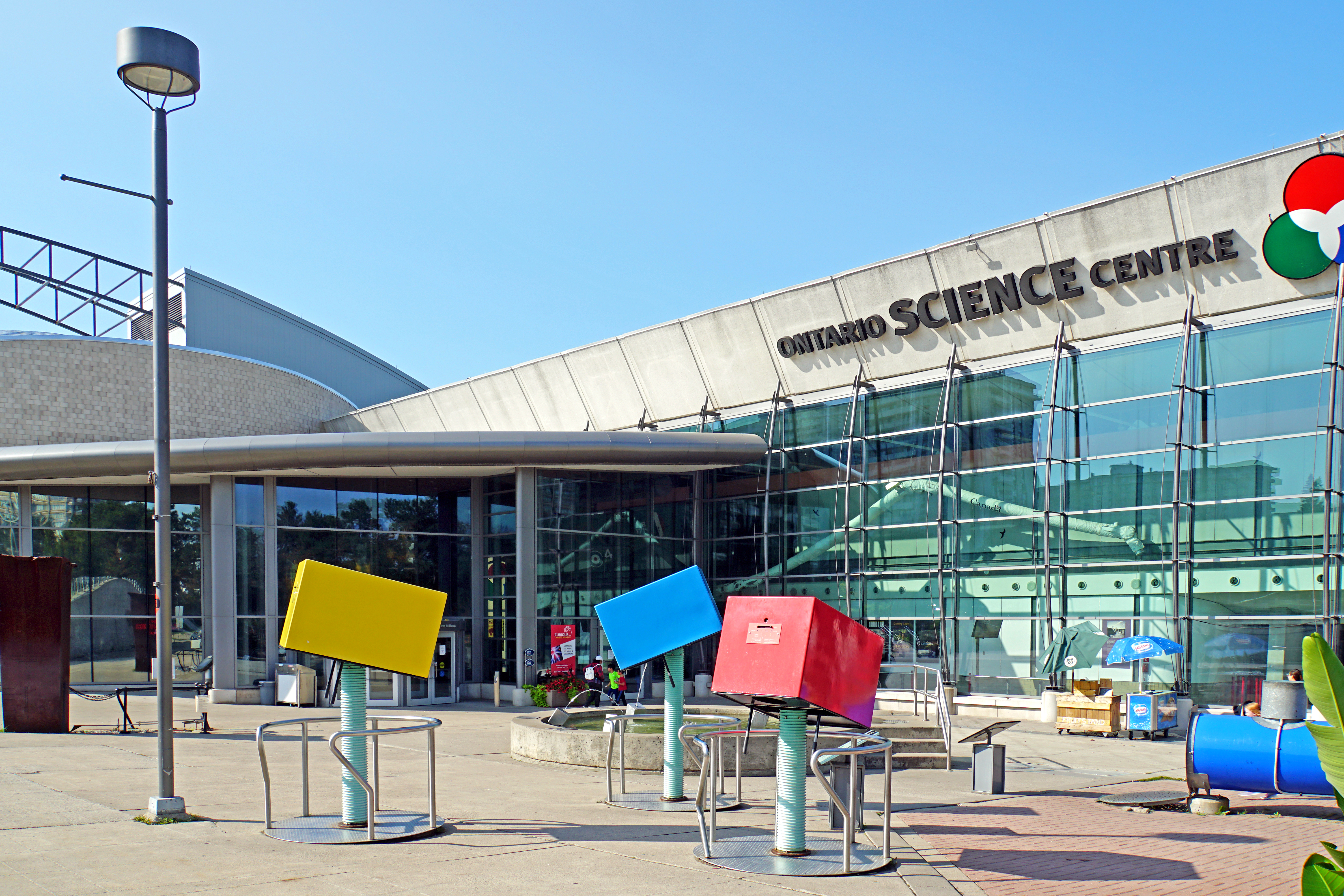 PLEASE, NO invitations or self promotions, THEY WILL BE DELETED. My photos are FREE to use, just give me credit and it would be nice if you let me know, thanks. Ontario Science Centre, explore 500 interactive experiences in 8 exhibit halls. Also went to a IMAX show that was great. This was a great place for the grandchildren to try different hands on things.